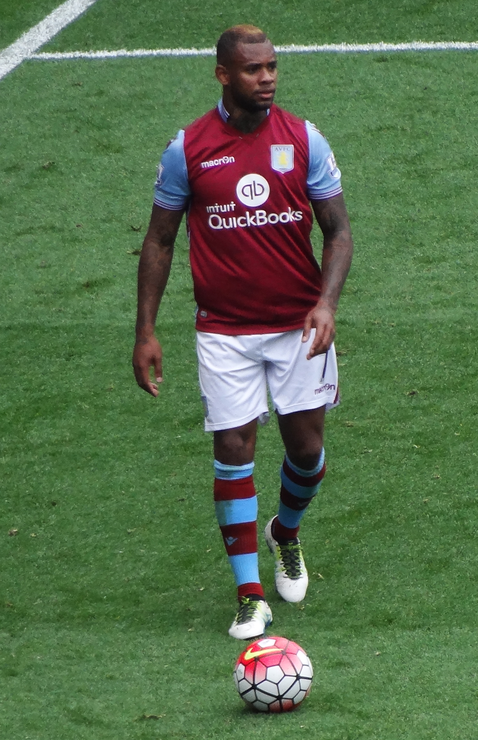 Aston Villa v Newcastle United, 7/5/2016